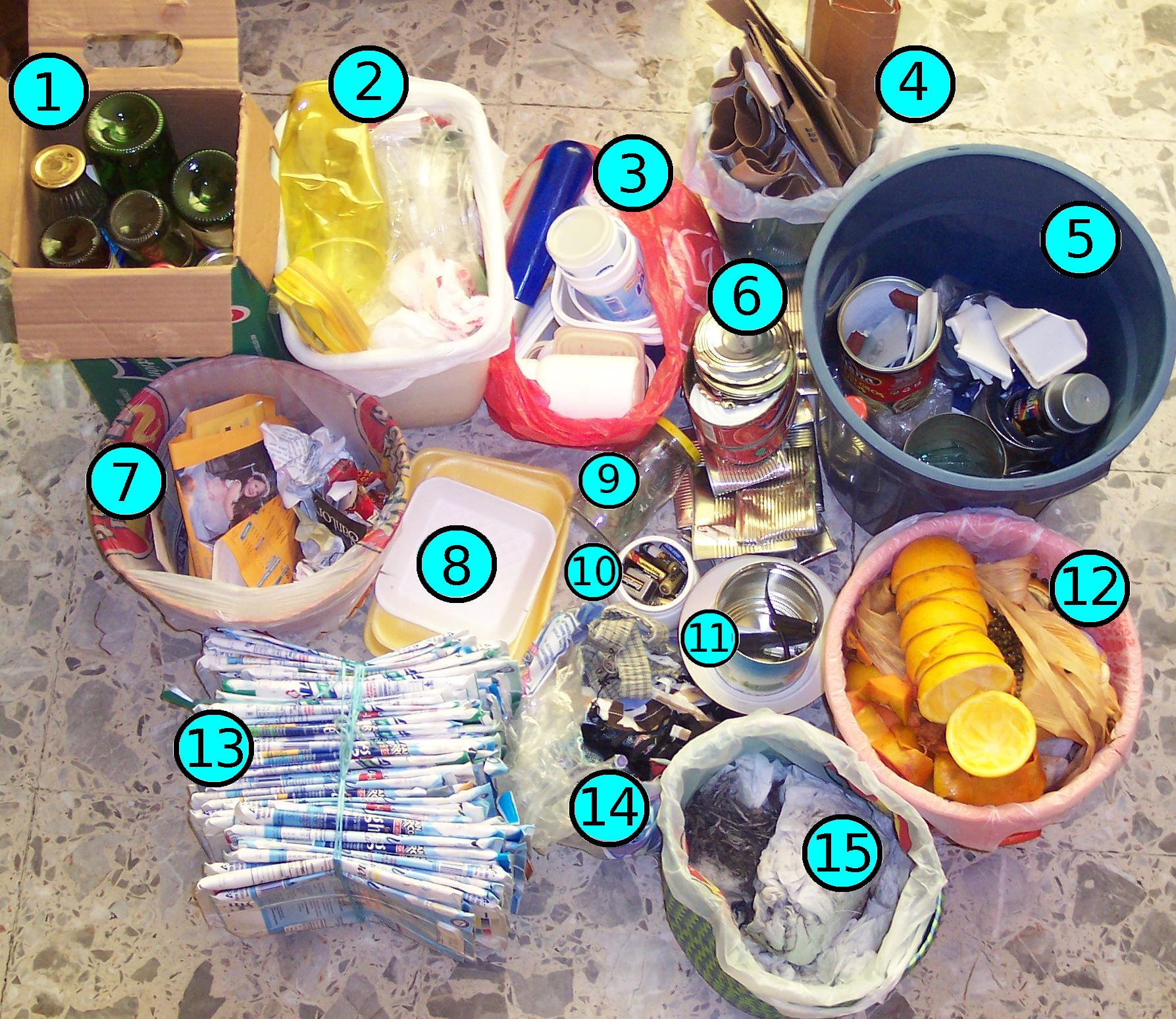 Classified home trash for aid the recycle process. Numbers for description have been added. A original copy without numbers can be submitted by me on request. 1) glass bottles, 2) thin plastic, 3) thick plastic, 4) cardboard, 5) no classified, 6) cans, 7) paper, 8) polystyrene, 9) glass fragments, 10) batteries, 11) metals, 12) organics, 13) tetrapak, 14) fabric, 15) wc.